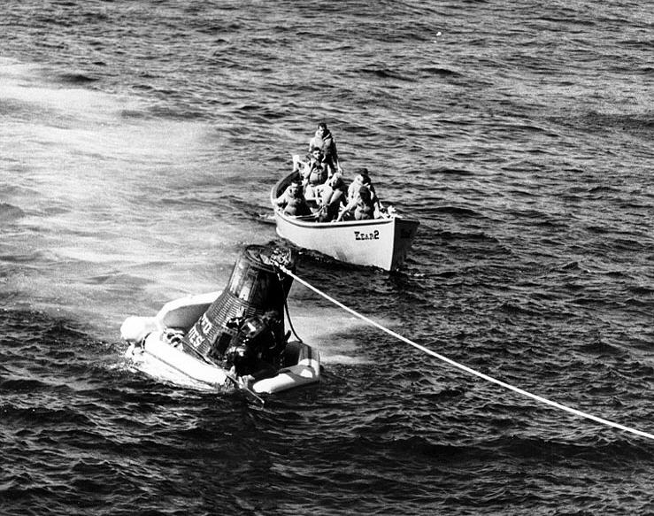 "Sigma 7" Project "Mercury" Space Capsule is towed toward USS Kearsarge (CVS-33) for pickup, after its orbital flight with astronaut (Commander, USN) Walter Schirra on board, 3 October 1962. Note rescue swimmer on the capsule's flotation collar, and a Kearsarge 26-foot motor whaleboat standing by.